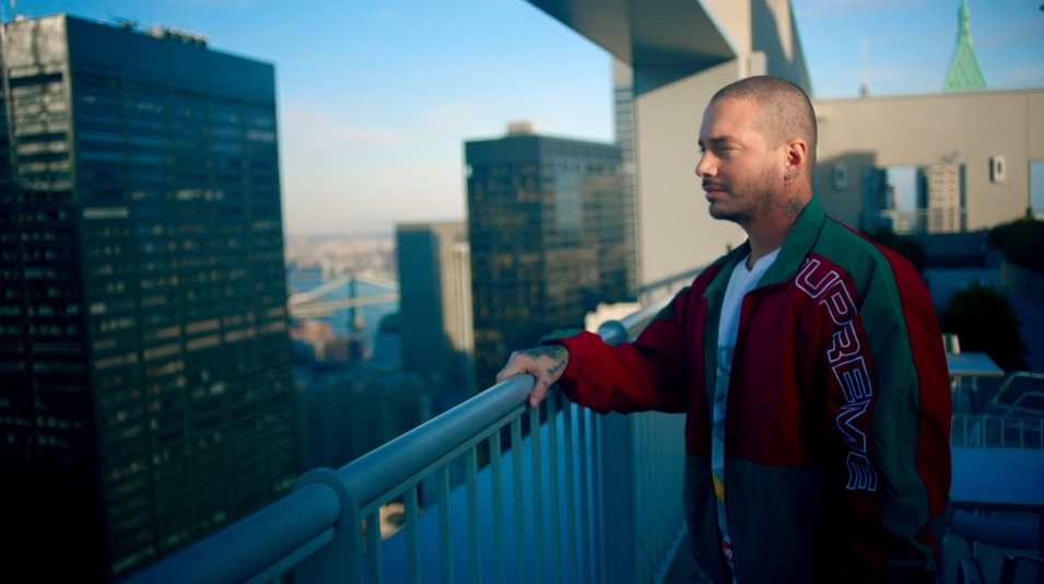 Colombian reggaeton artist J Balvin in a 2018 interview with Jeff Pinilla for Noisey/Vice